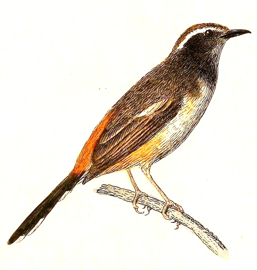 « Turdus lusoniensis » = Copsychus luzoniensis (White-browed Shama)